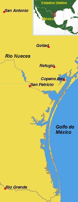 This is a map showing some cities in Texas, in portuguese.